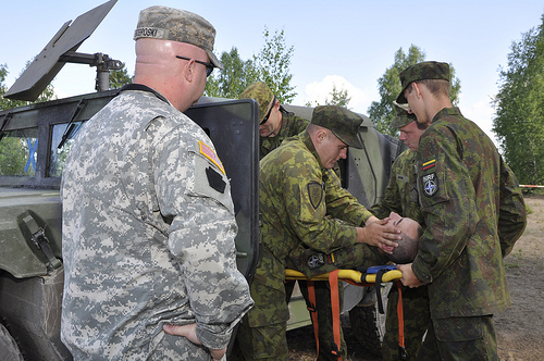 Staff Sgt. John Bobroski of the Pennsylvania Army National Guard’s Medical Battalion Training Site located in Annville, Pa., instructs Lithuanian troops from the 1st Battalion on vehicle extraction techniques. The training is useful in preparing troops for dealing with improvised explosive device strikes and the removal of casualties from vehicles disabled during such strikes.